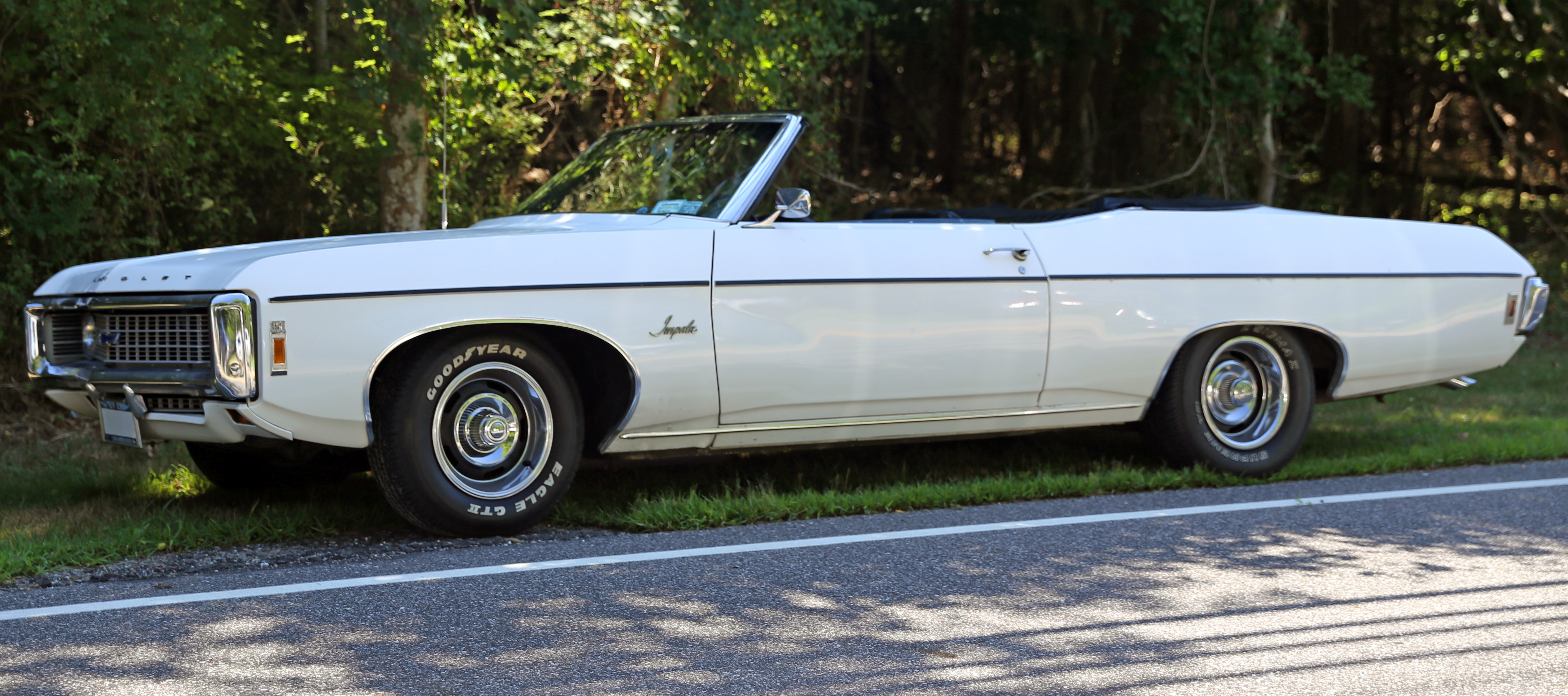 1969 Chevrolet Impala convertible in Springs, NY.